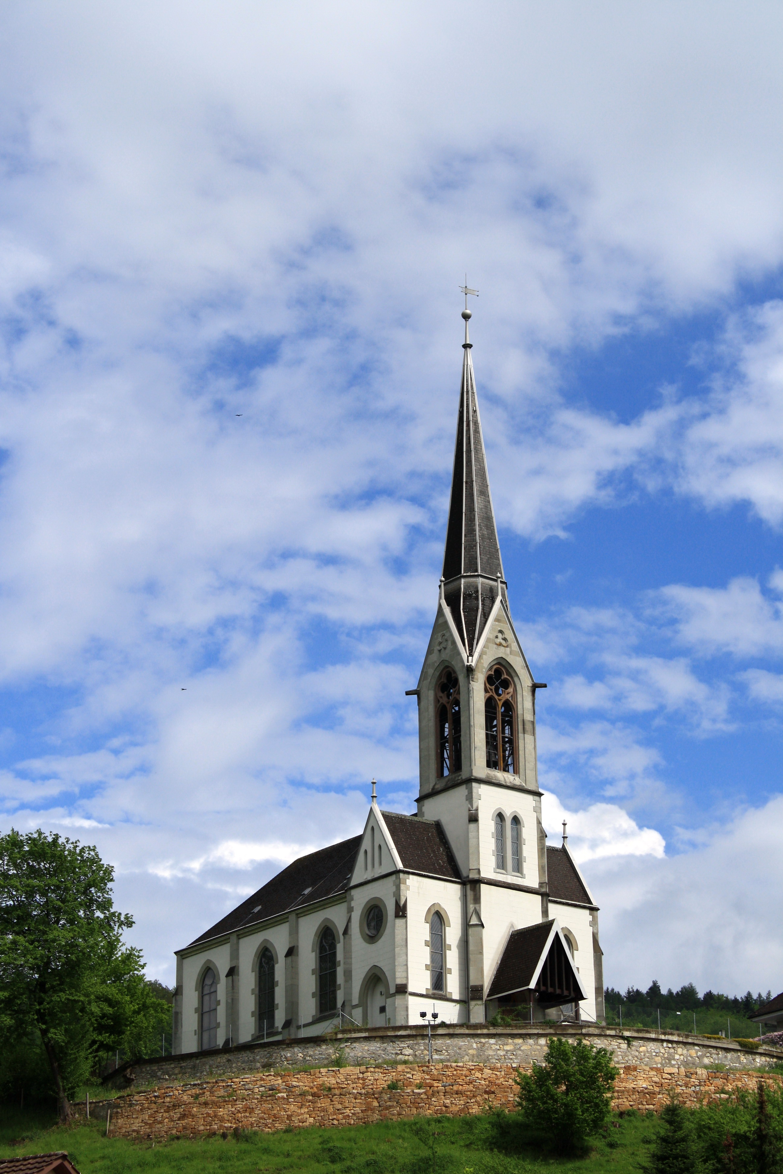 Reformed Church of Gebenstorf, Switzerland